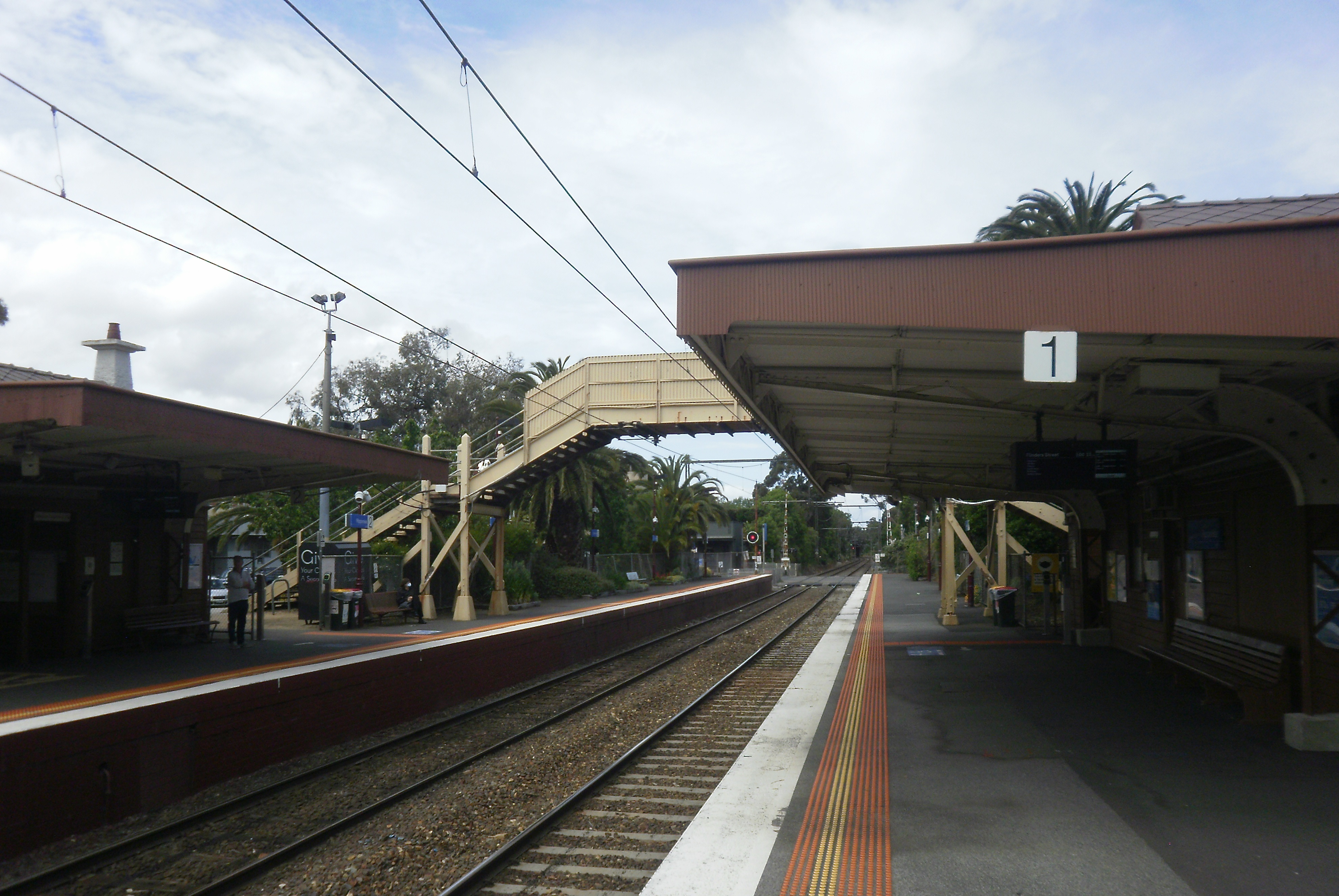 Ripponlea station 2017